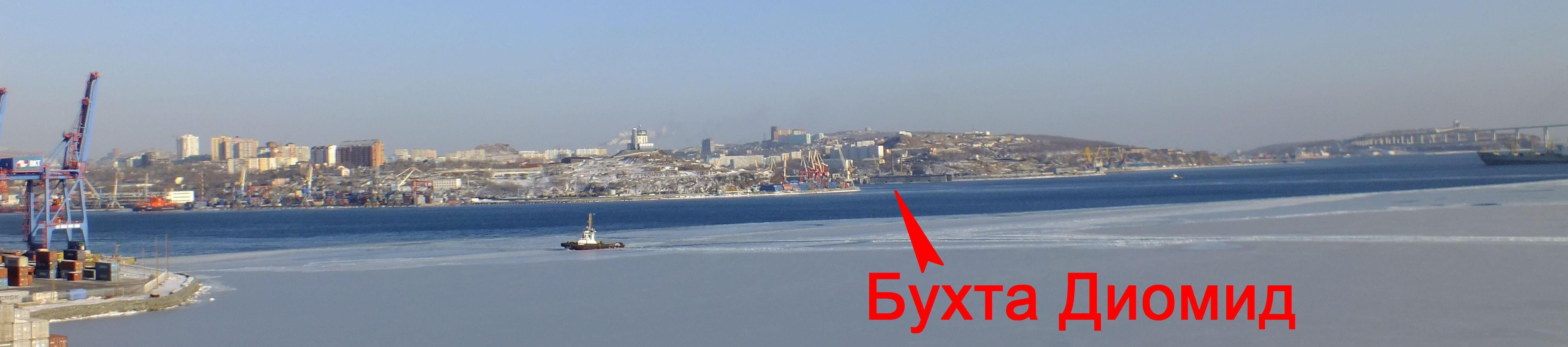 Eastern Bosphorus